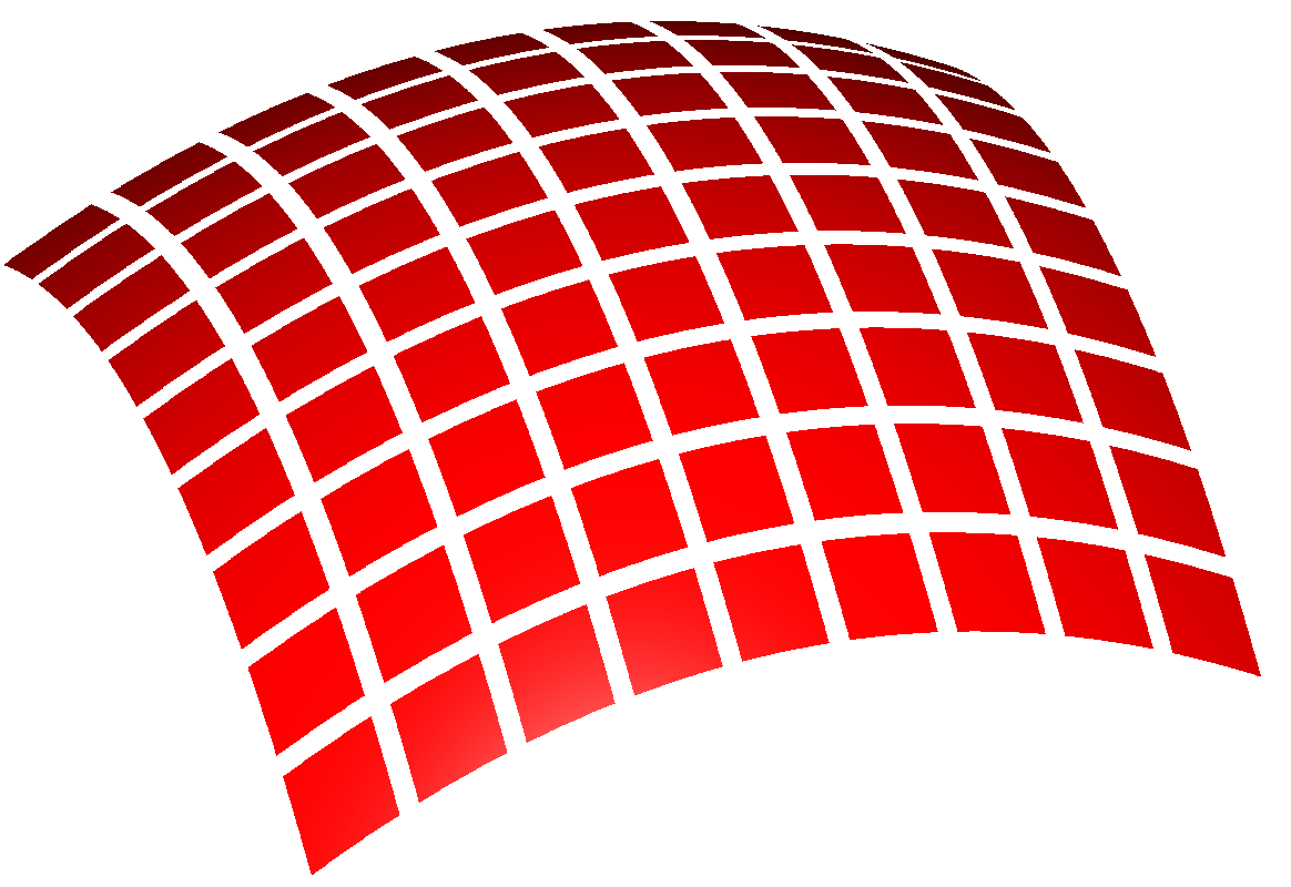 The definition of surface integral relies on splitting the surface into small surface elements. Figure 1: The definition of surface integral relies on splitting the surface into small surface elements. Each element is associated with a vector dS of magnitude equal to the area of the element and with direction normal to the element and pointing outward.